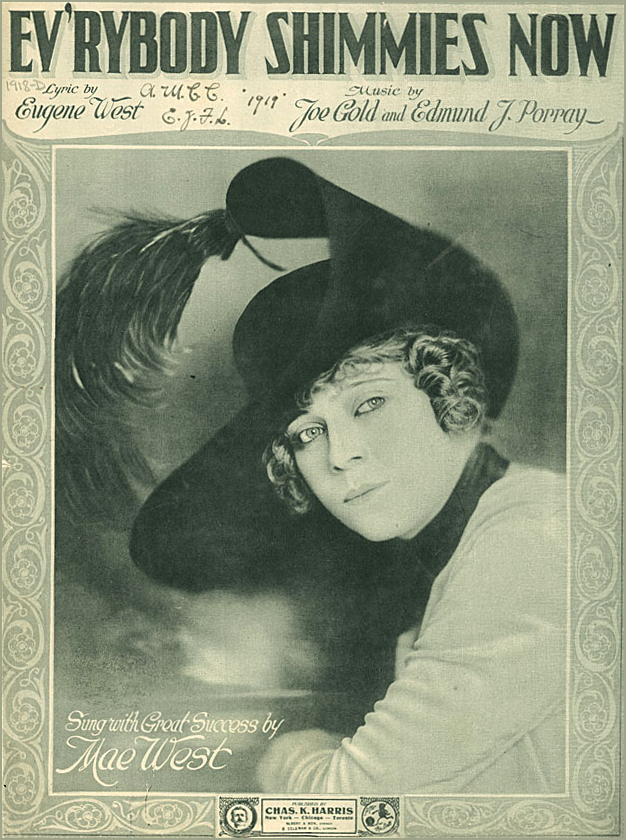 "Ev'rybody Shimmies Now" sheet music cover with photoportrait of Mae West